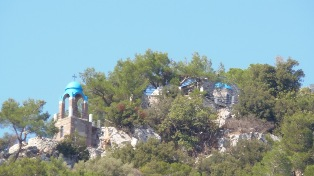 Kasetli, Agisos, Greece